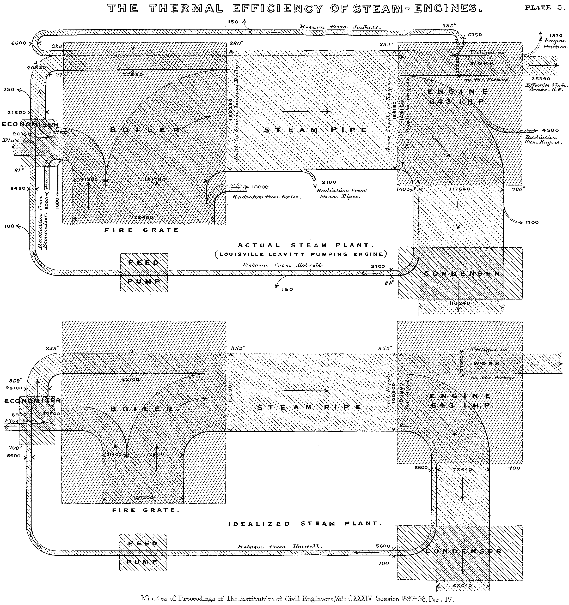 Sankey Diagram drawn by M. H. Sankey, extracted from "The Thermal Efficiency Of Steam Engines".